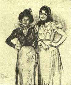 Dues dones